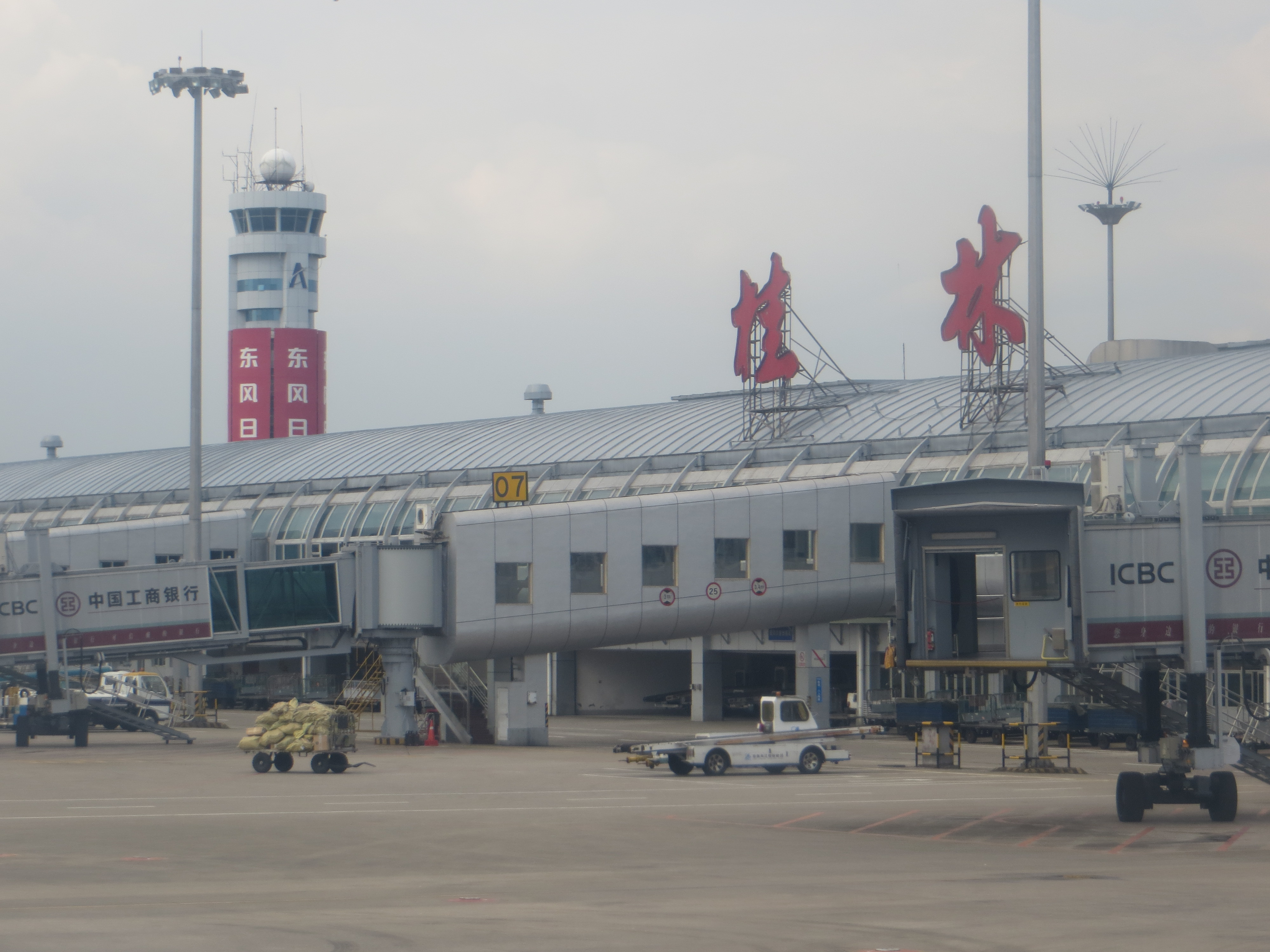 The terminal and ATC tower at Guilin Airport, China.